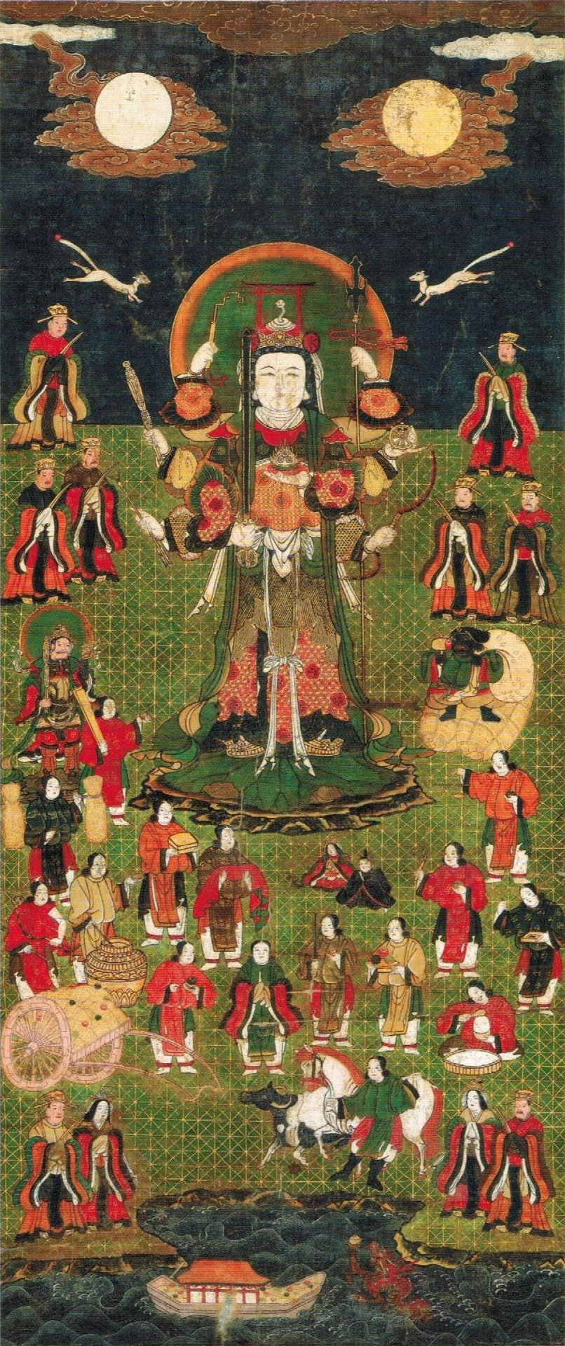 Uga-Benzaiten and Fifteen Boy Attendants, Muromachi period, second half of 15th century, hanging scroll, ink and color on silk, 97 x 40.5 cm.